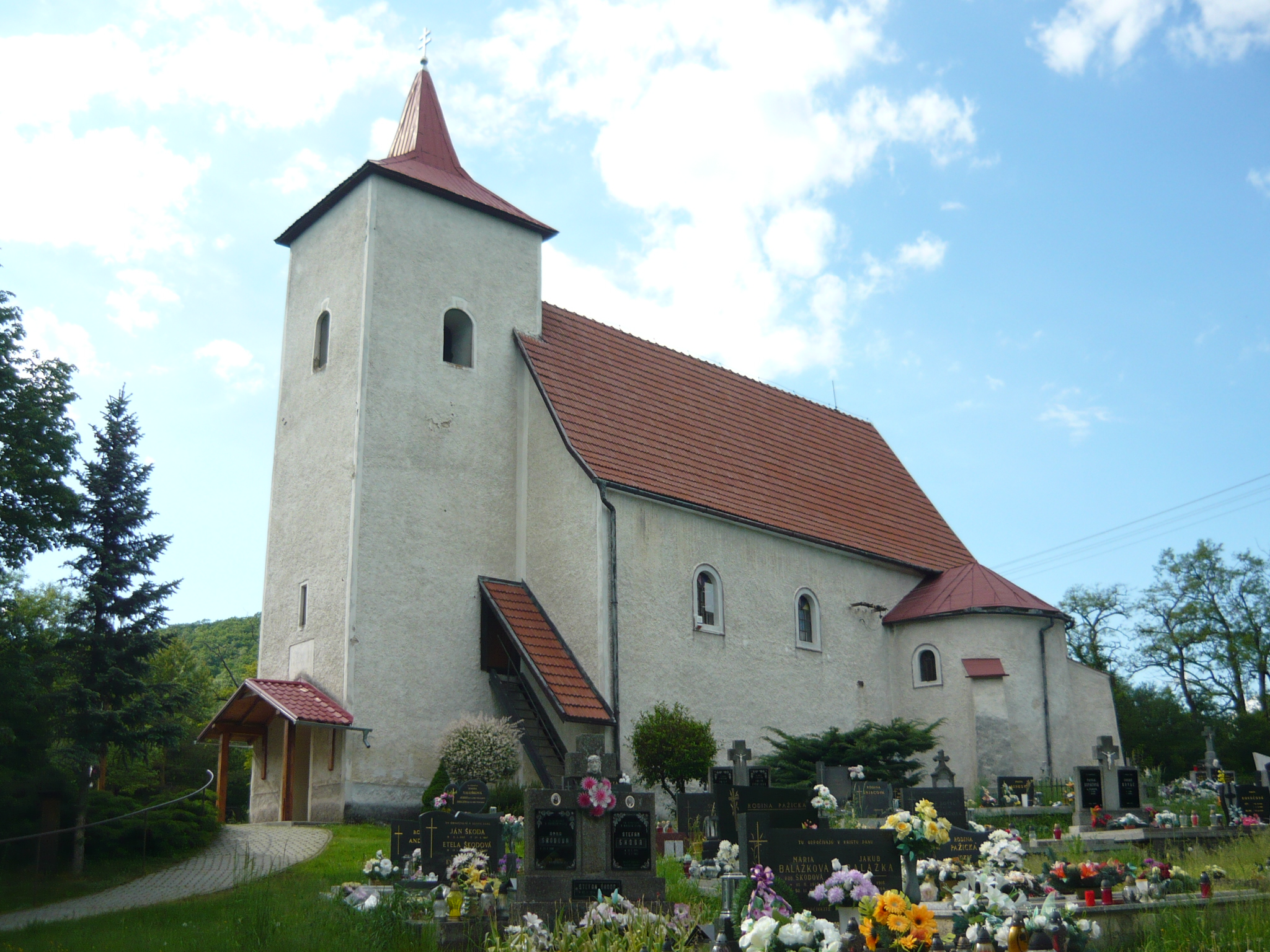 St. Anne's Church in Chalmová, Bystričany, Slovakia.